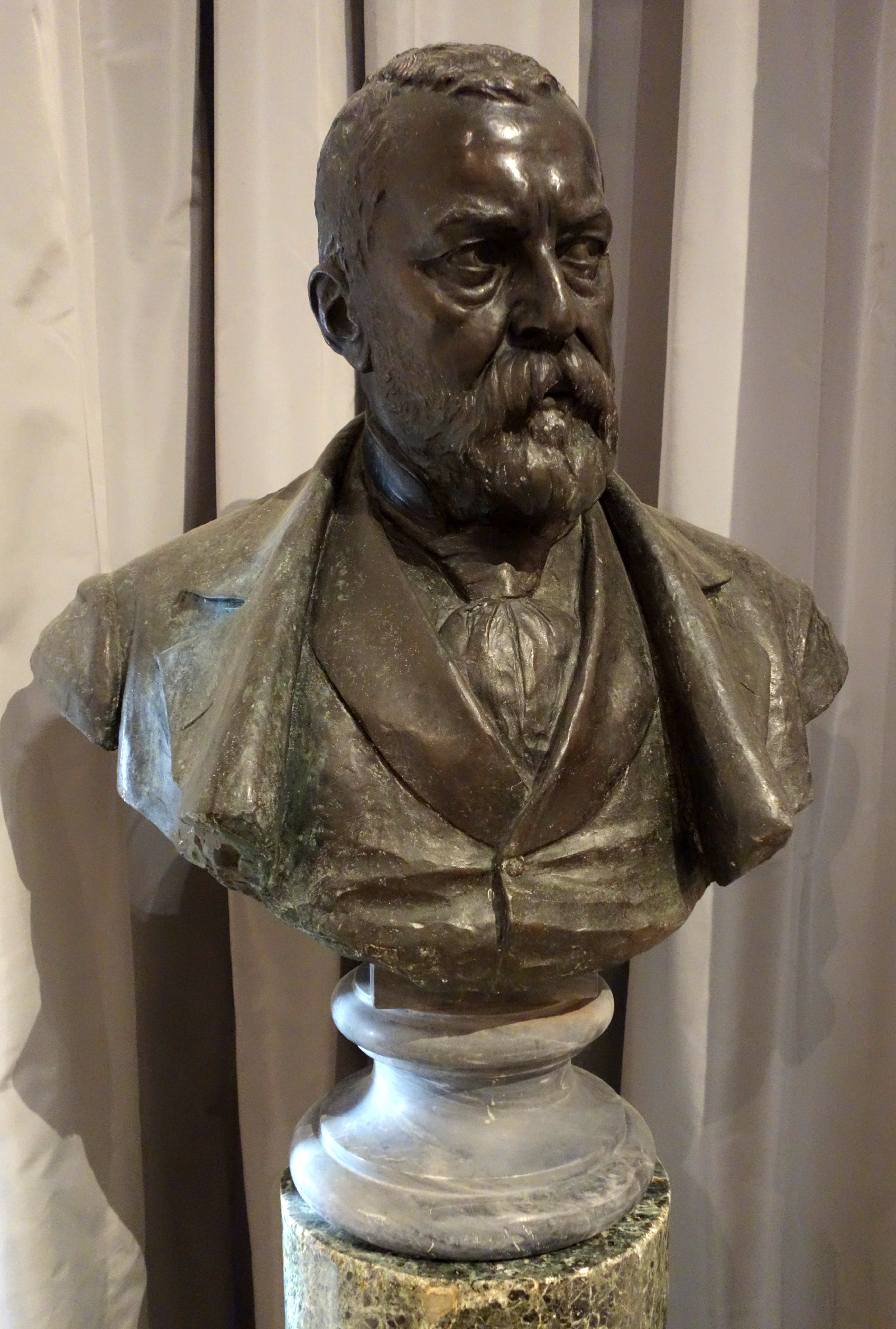 Exhibit in the Accademia Ligustica di Belle Arti, Genoa, Italy. This artwork is old enough so that it is in the public domain.